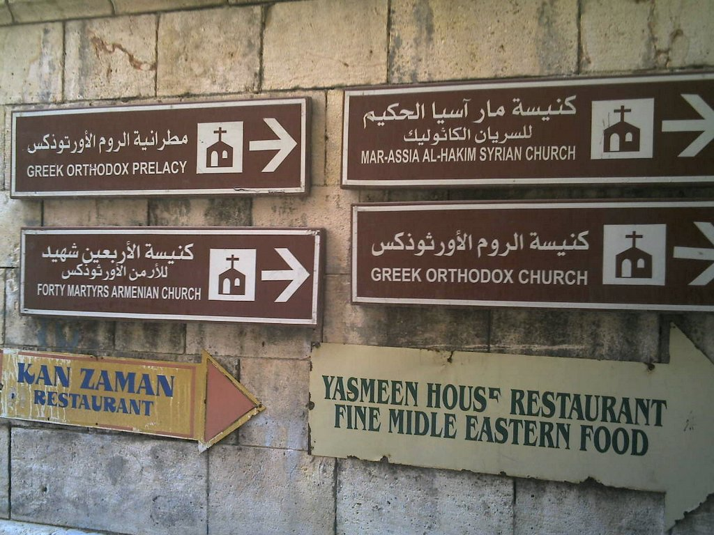 Church signs at Ayda alley directing towards the old churches at the at the Christian quarter of Jdeydeh, Aleppo.